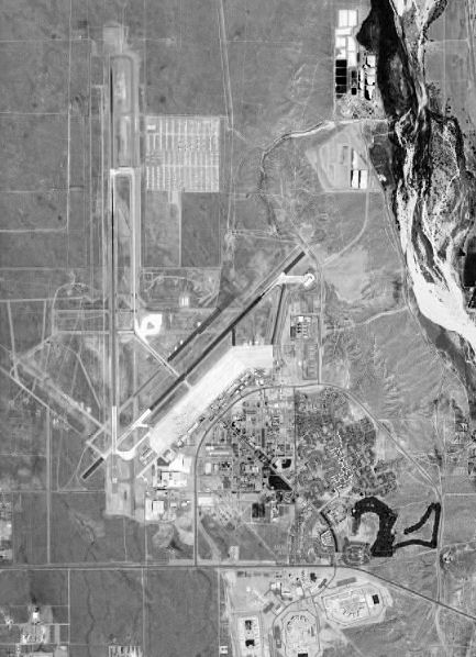 George AFB, California - 28 May 1994 Source: United States Geological Survey digital orthophotoquad via TerraService WebMap Server